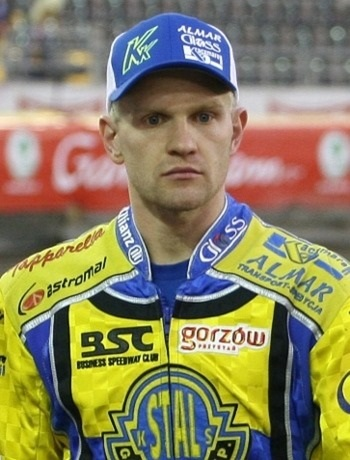 Krzysztof Kasprzak in season 2012